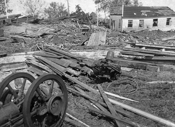 Aftermath of the 1921 Tampa Bay hurricane.